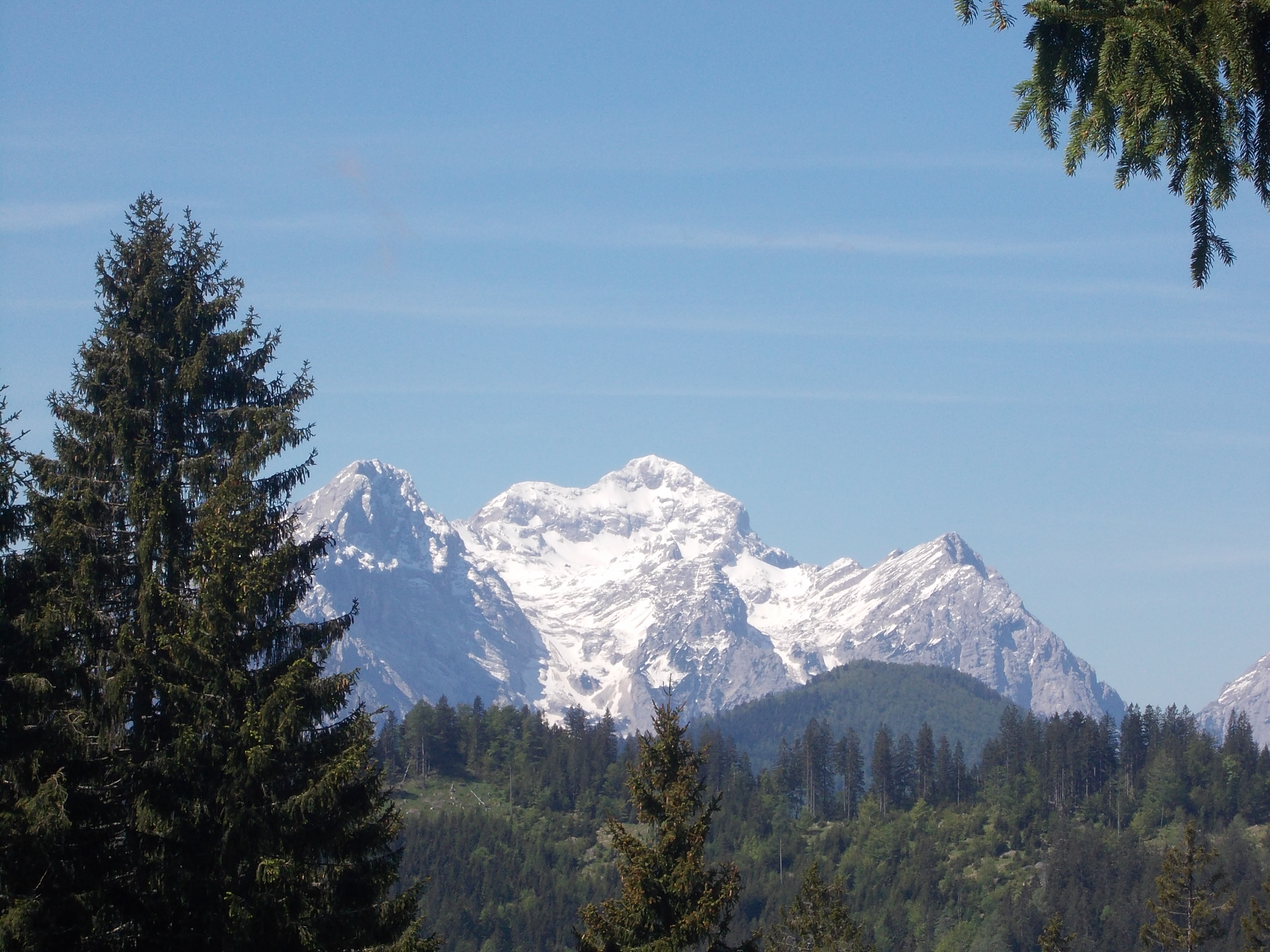 Triglav from Golica